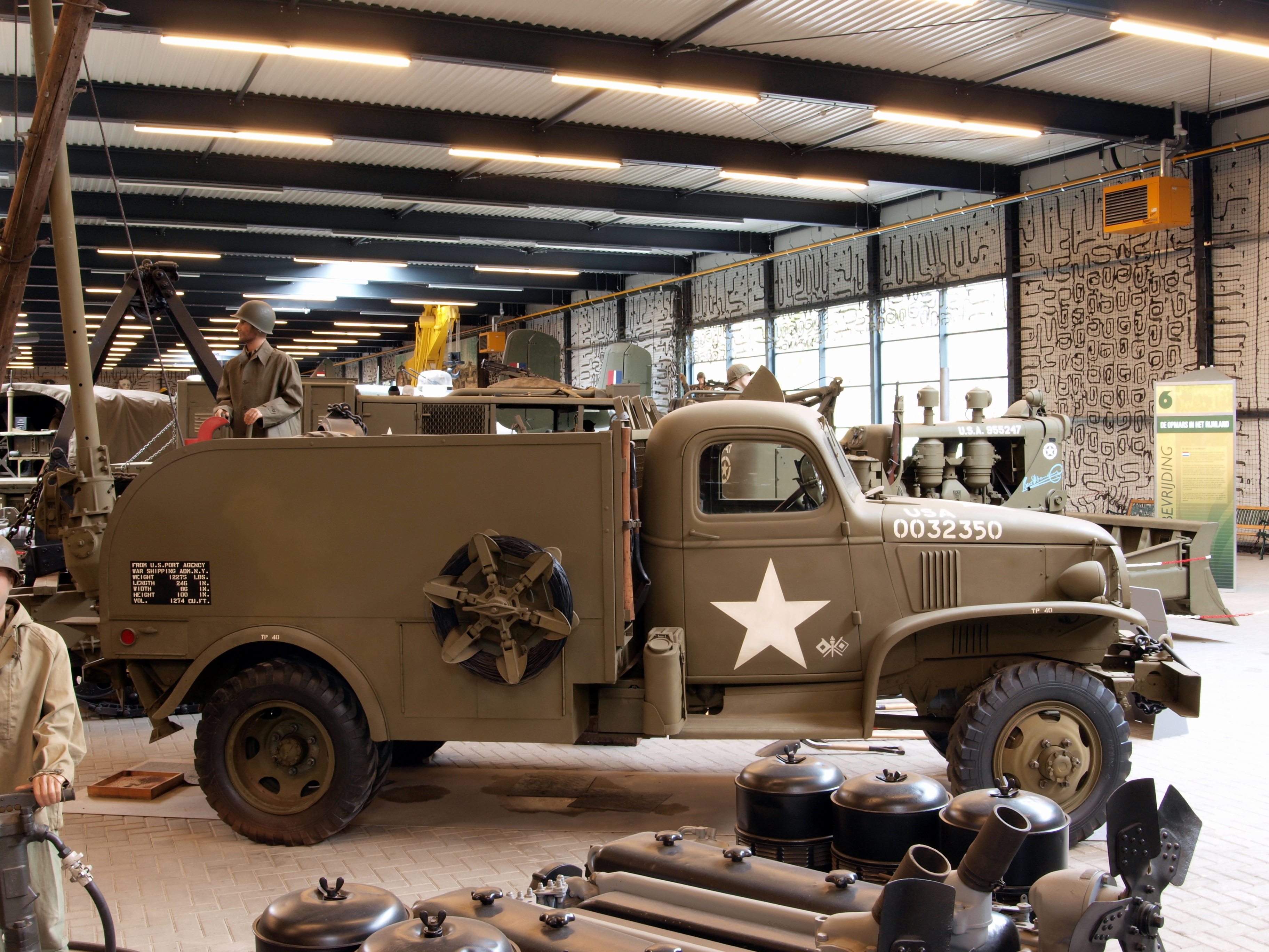 Photographed at the Marshallmuseum - Liberty Park - Oorlogsmuseum Overloon, The Netherlands.